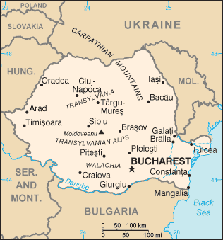 A map of Romania, showing major towns.